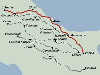 L'Aquila - Foggia sheep-track